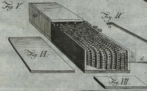 A Invention from the slovenian beekeeper Anton Janscha (Anton Janša): A Box for beekeeping named Krainer Bauernstock (open)